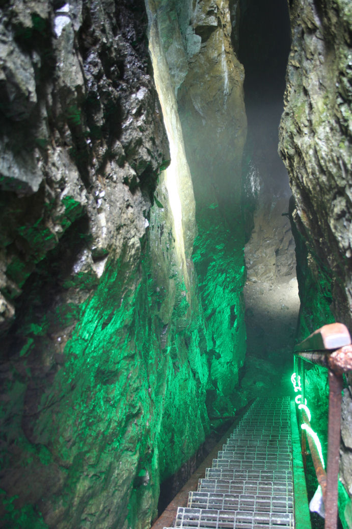 The entrance to the Hoverbergsgrottan near Svenstavik (Berg municipality) in Jämtland county, Sweden.